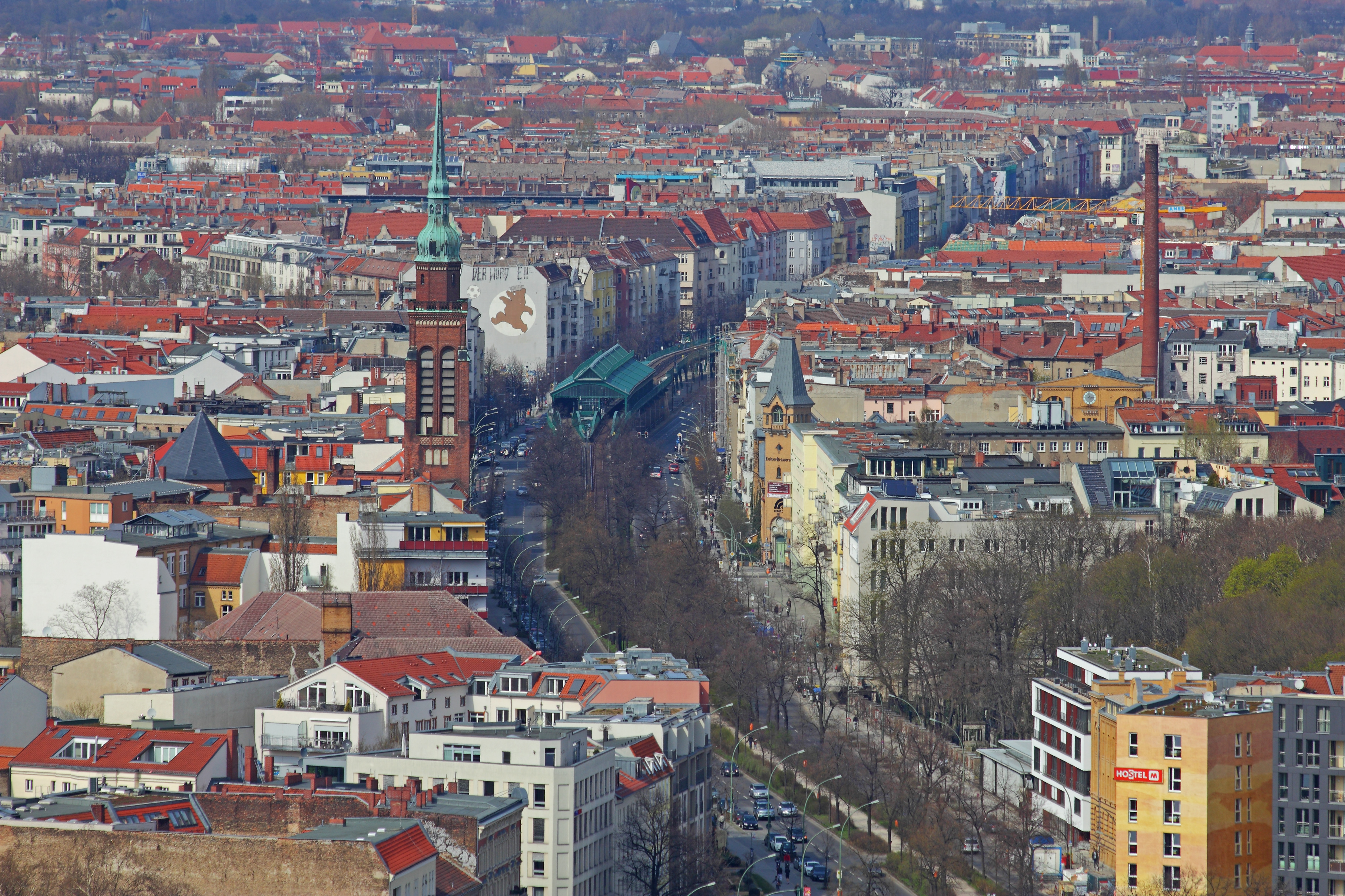 View of Berlin from the viewing point of Park Inn, Alexanderplatz.